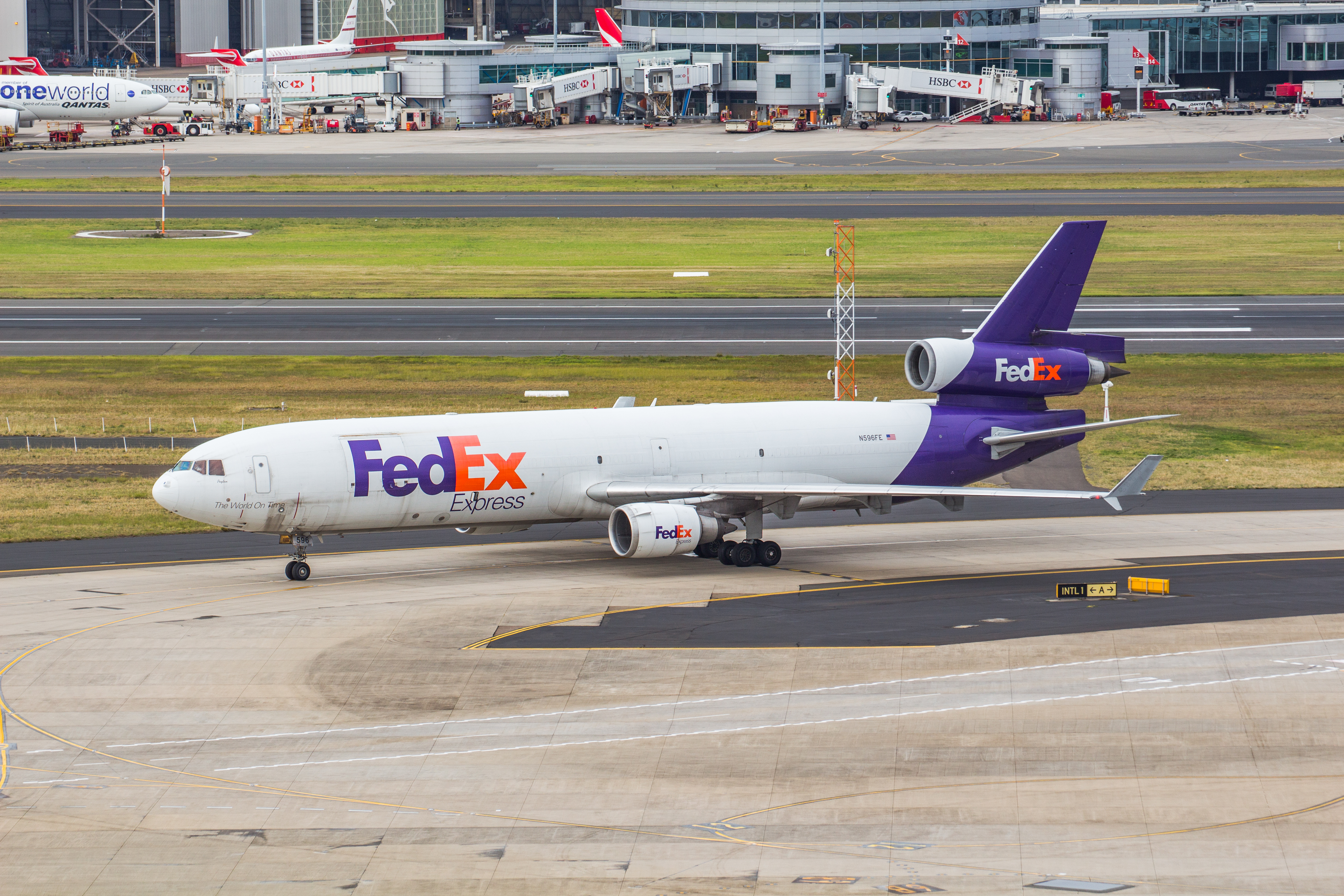 A Federal Express Mcdonell Douglas MD-11F taxing to the Cargo Terminals